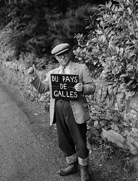 Islwyn Roberts of Llanbedr, Merionethshire, hitchhiking.